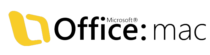 This is a logo for Microsoft Office 2008 for Mac